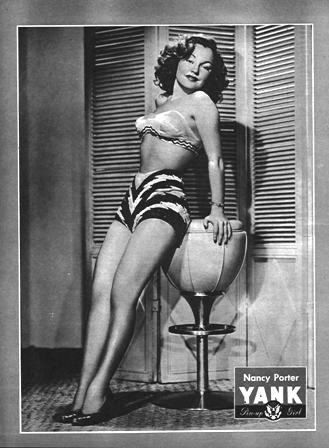 Pin-up photo of Nancy Porter for the Jun. 8, 1945 issue of Yank, the Army Weekly, a weekly U.S. Army magazine fully staffed by enlisted men.